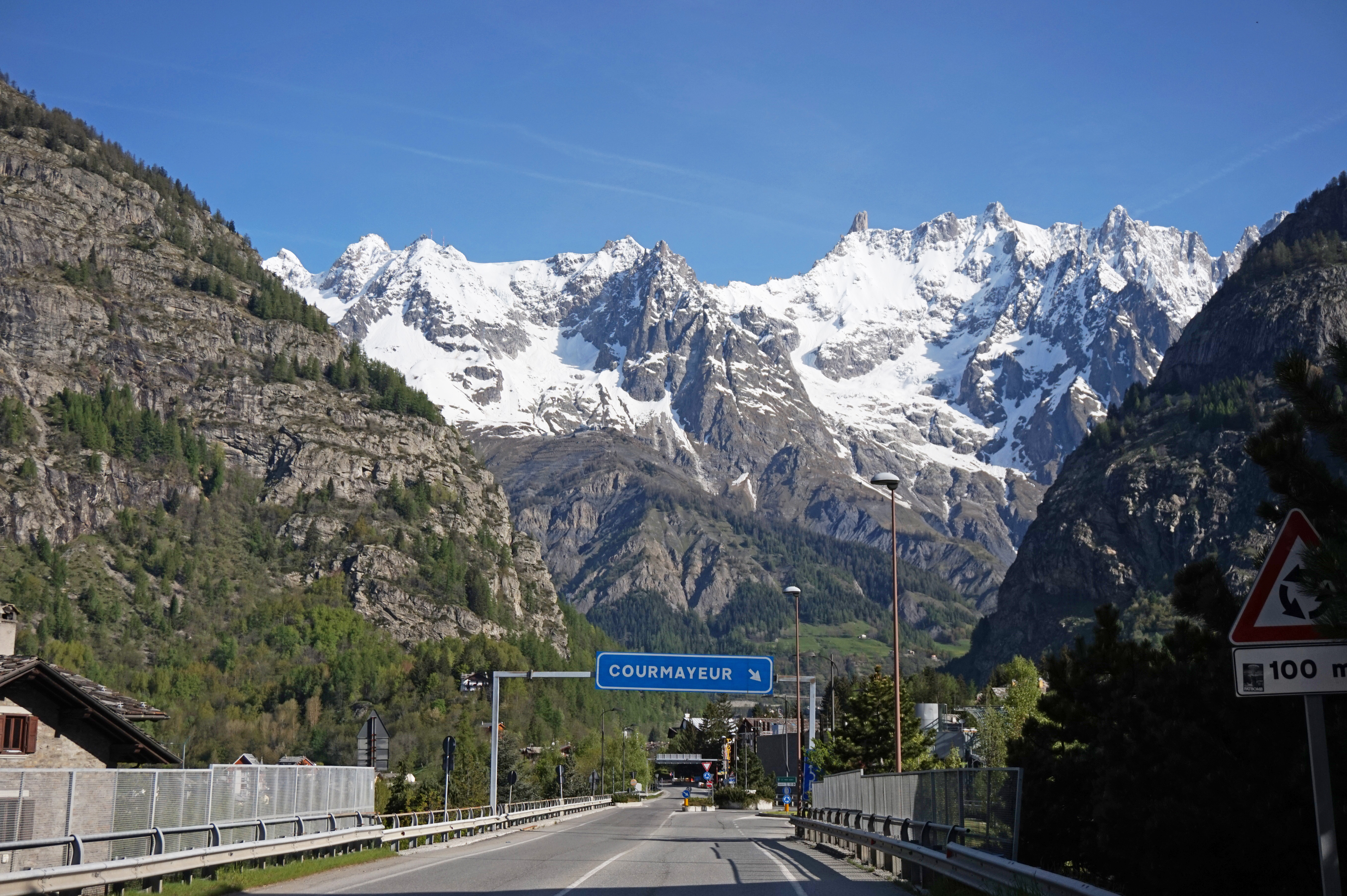 The road SS 26 dir, Courmayeur. On the background is Mont Blanc.This photograph was taken with a Sony ILCE-5000